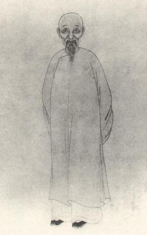 Zheng Xie (simplified